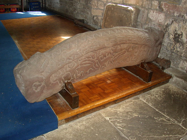 Hogback tombstone, St Peter's Church, Heysham (1) This was found in the churchyard and taken into the church for protection in the 1960s. It is a Viking stone of the 10C, and is possibly the best-preserved of such stones. It is considered that this side depicts, in 'strip cartoon' form, the story of Sigmund. This is about his escape from wolves, and is too long to reproduce here, but can be obtained in the church. The overall design of the stone is an arched roof with a bear's head at each end.